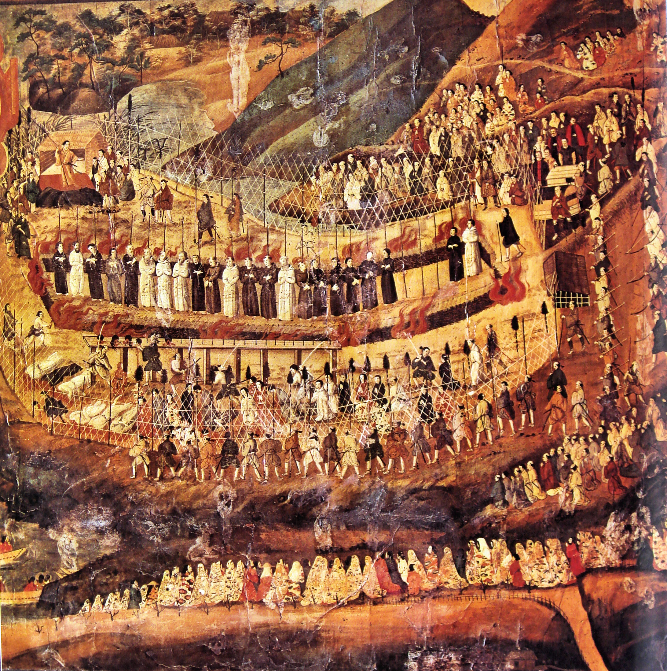 Christian Martyrs Of Nagasaki, is known as "元和大殉教図" in Japan.